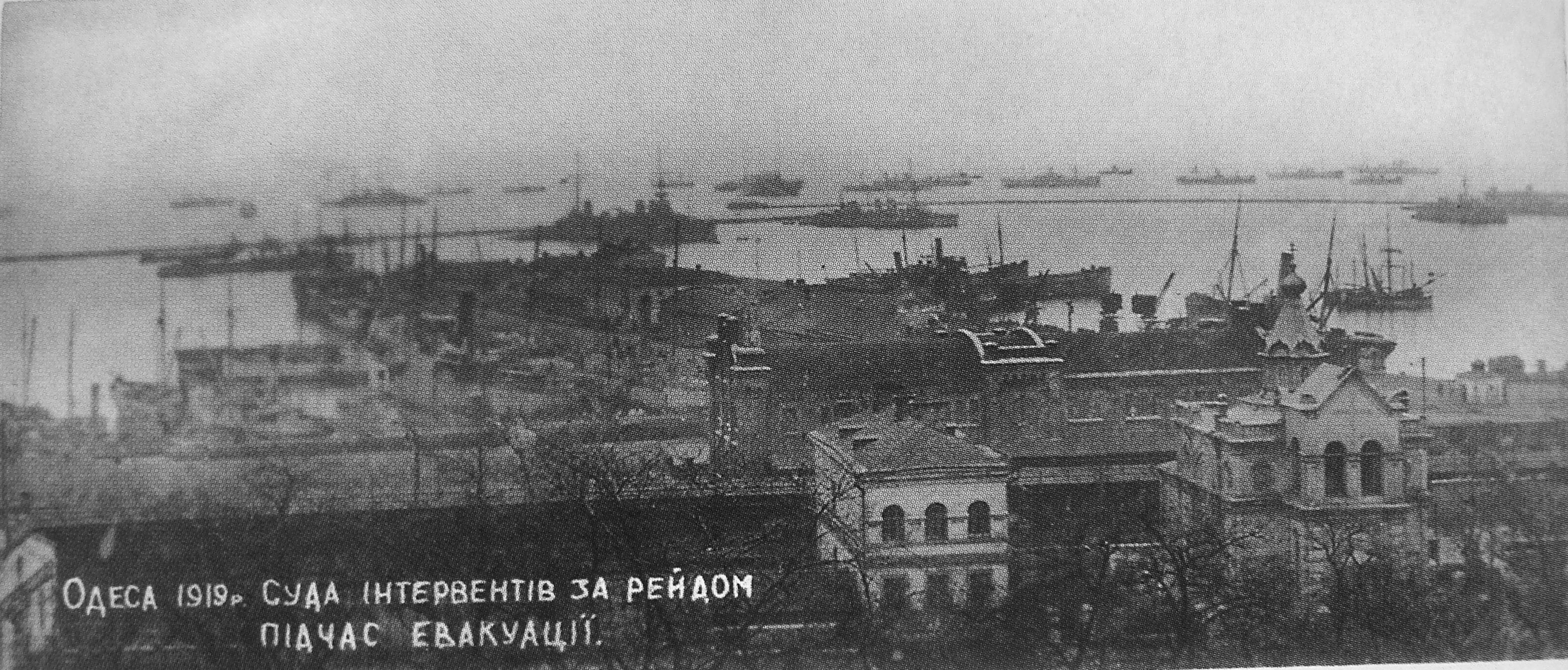 April 1919. Allied ships in Odessa outer road during days of French evacuation of Odessa